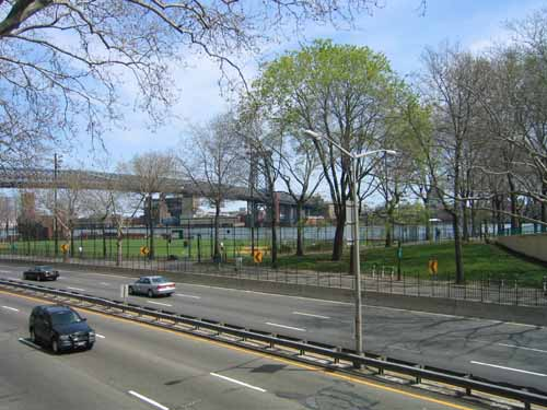 East River Park, New York City.